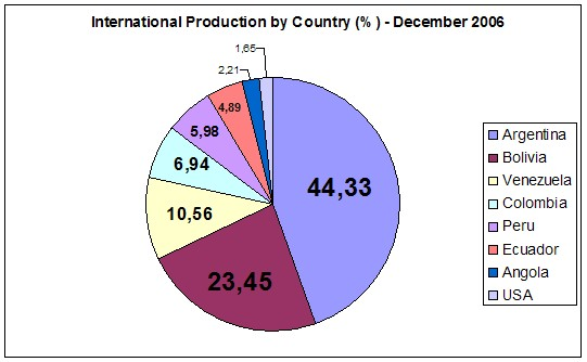 Graph with information about Petrobras' Global Operations.